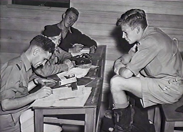 Sale, Vic. Flight Sergeant O. G. Keats, a RAAF navigator instructor, supervises the work at No. 1 Operational Training Unit, RAAF. Front to back: 409134 Flying Officer F. G. Davies; Pilot Officer R. Blain; Pilot Officer O. R. Arnold.